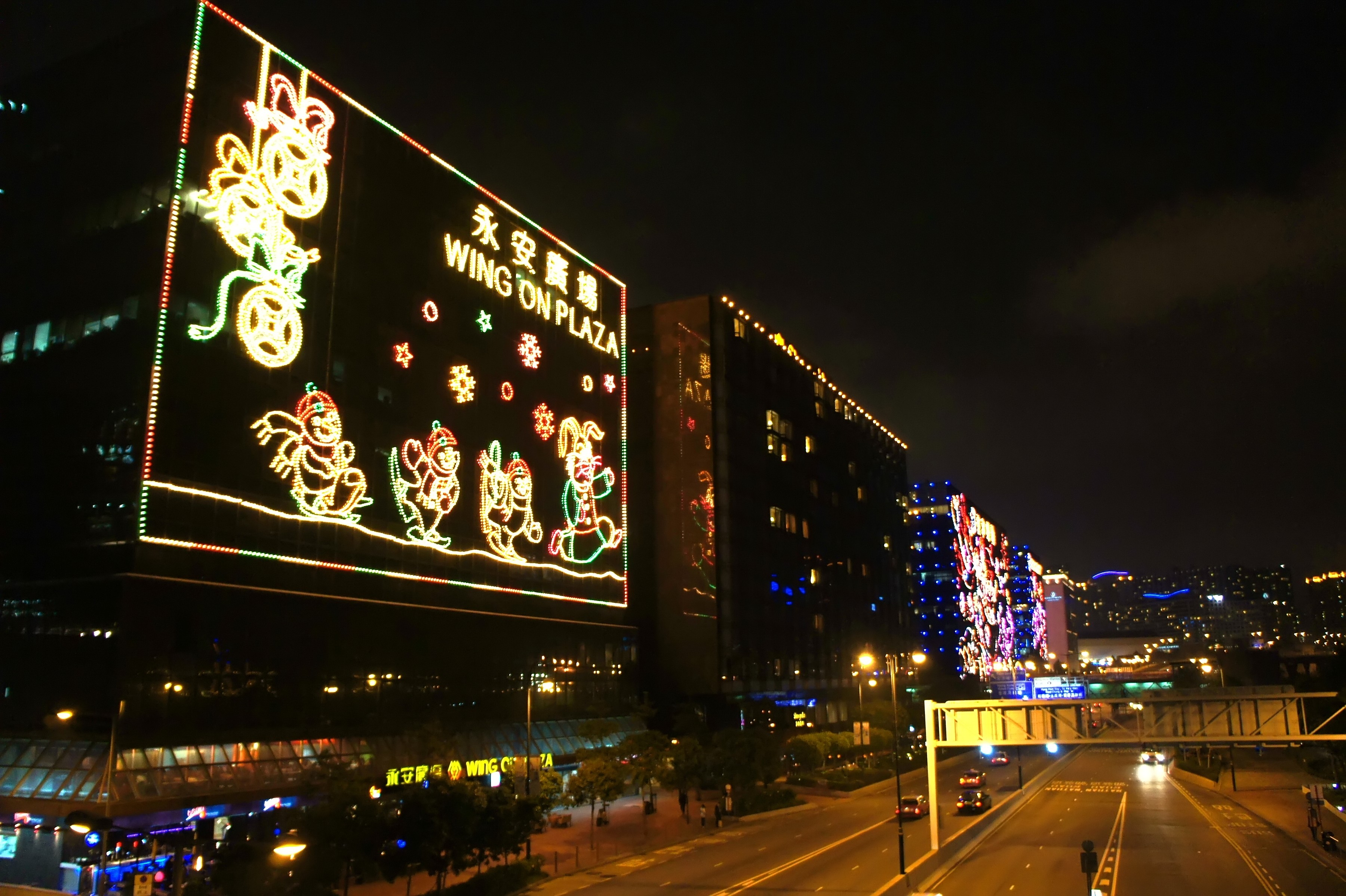 Wing On Plus at Wing On Plaza, Tsim Sha Tsui East, Kowloon, Hong Kong) at night.